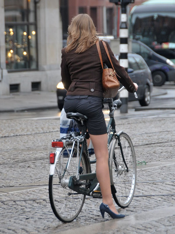 Originally: Beautiful girl on bikeComment: Photo taken in Amsterdam according to Flickr source-page pr. 2011-06-30. This is a cropped version of File:Ciclista con tacos altos.jpg.